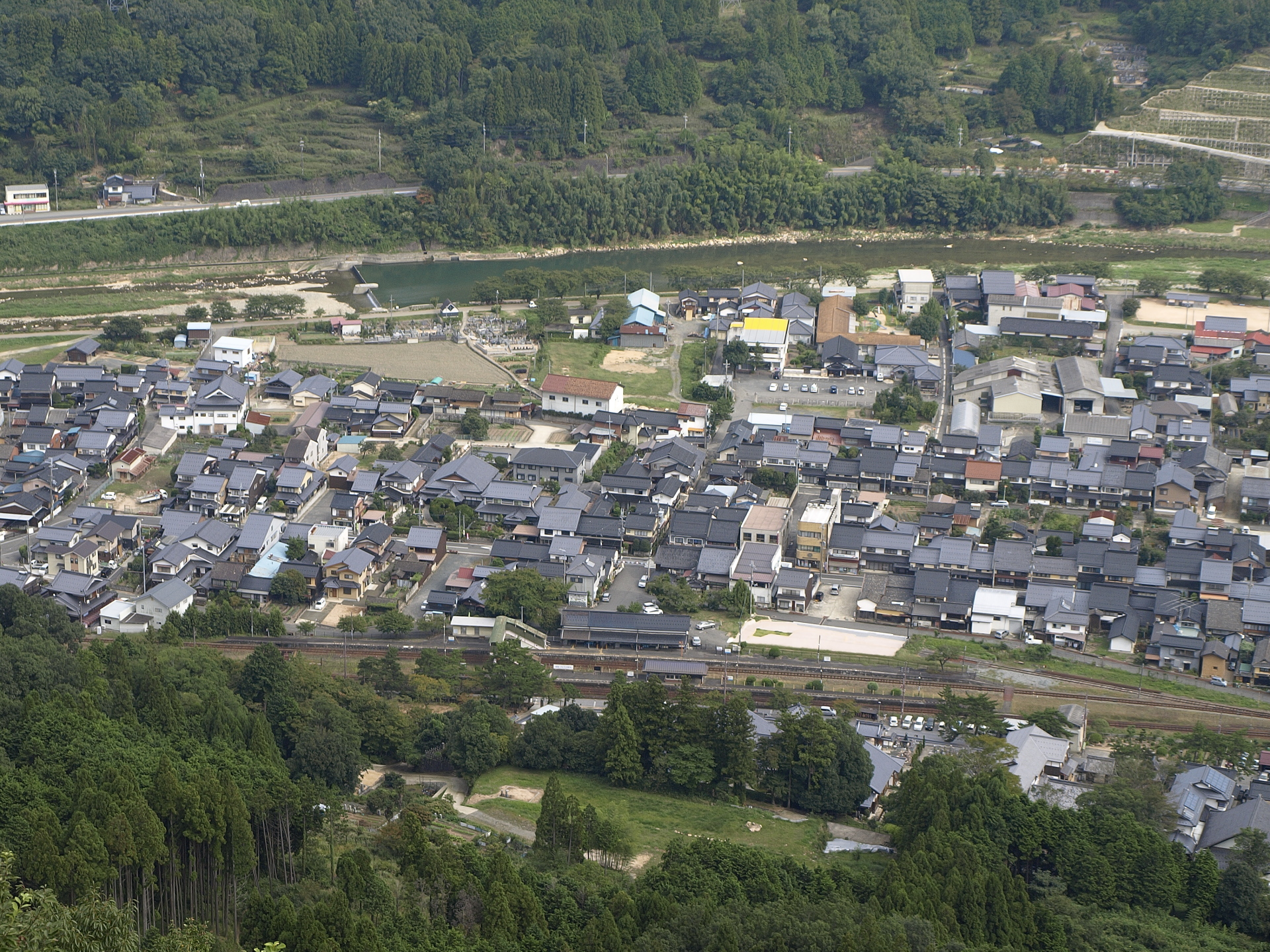 Takeda Railway Station from Takeda Castle.